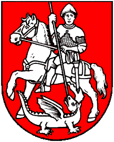 Coat of Arms of Soßmar First upload in de-wp: BitH (11:37, 23. Apr. 2007)